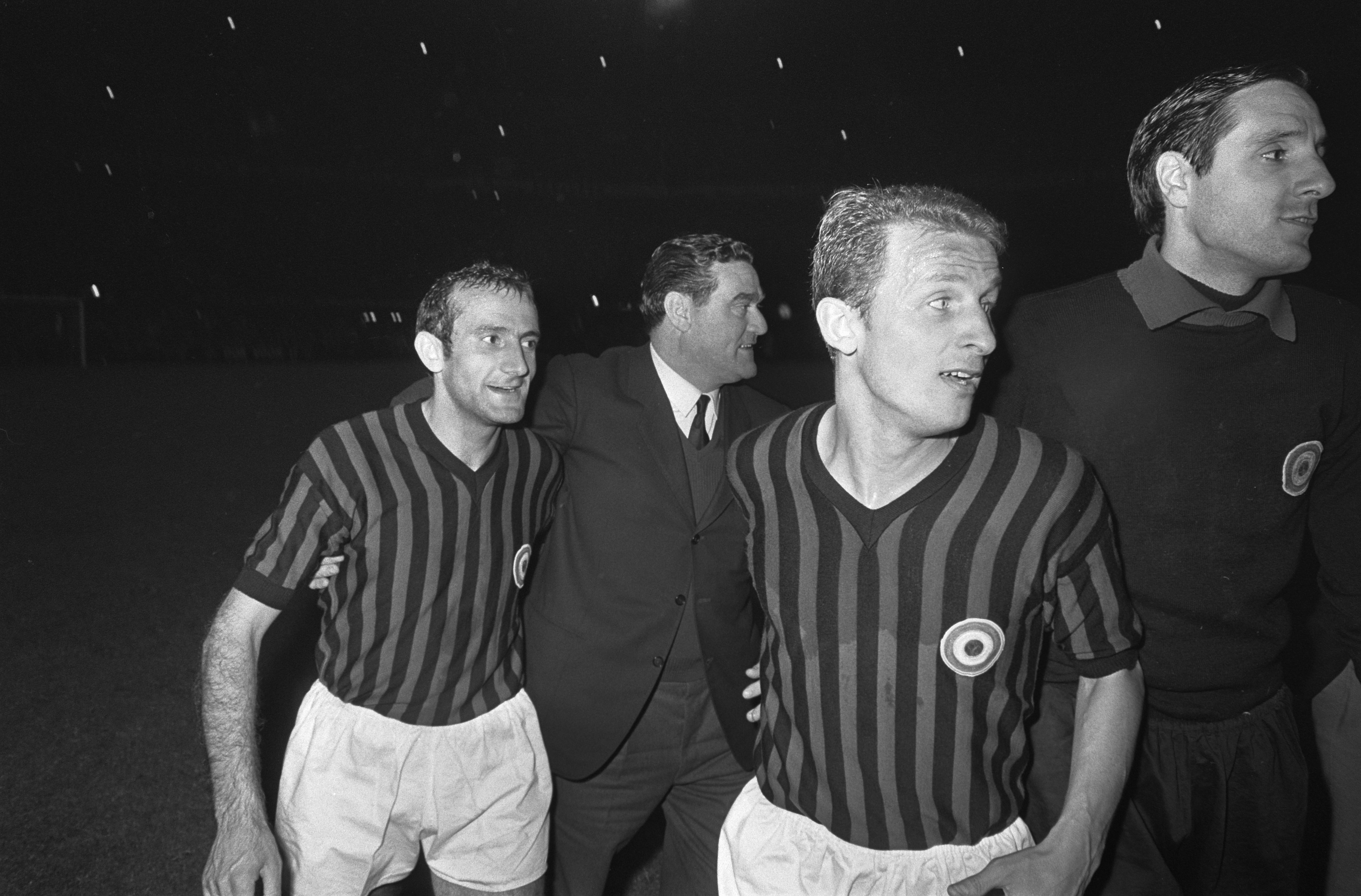 1967-68 UEFA Cup Winners' Cup final in Rotterdam, AC Milan vs Hamburger SV. From left to right AC Milan players Giovanni Lodetti, Giovanni Trapattoni and the goalkeeper Fabio Cudicini together with the head coach Nereo Rocco.